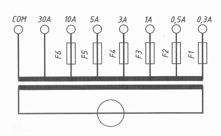 Ammeter with moving-iron movement-CT.